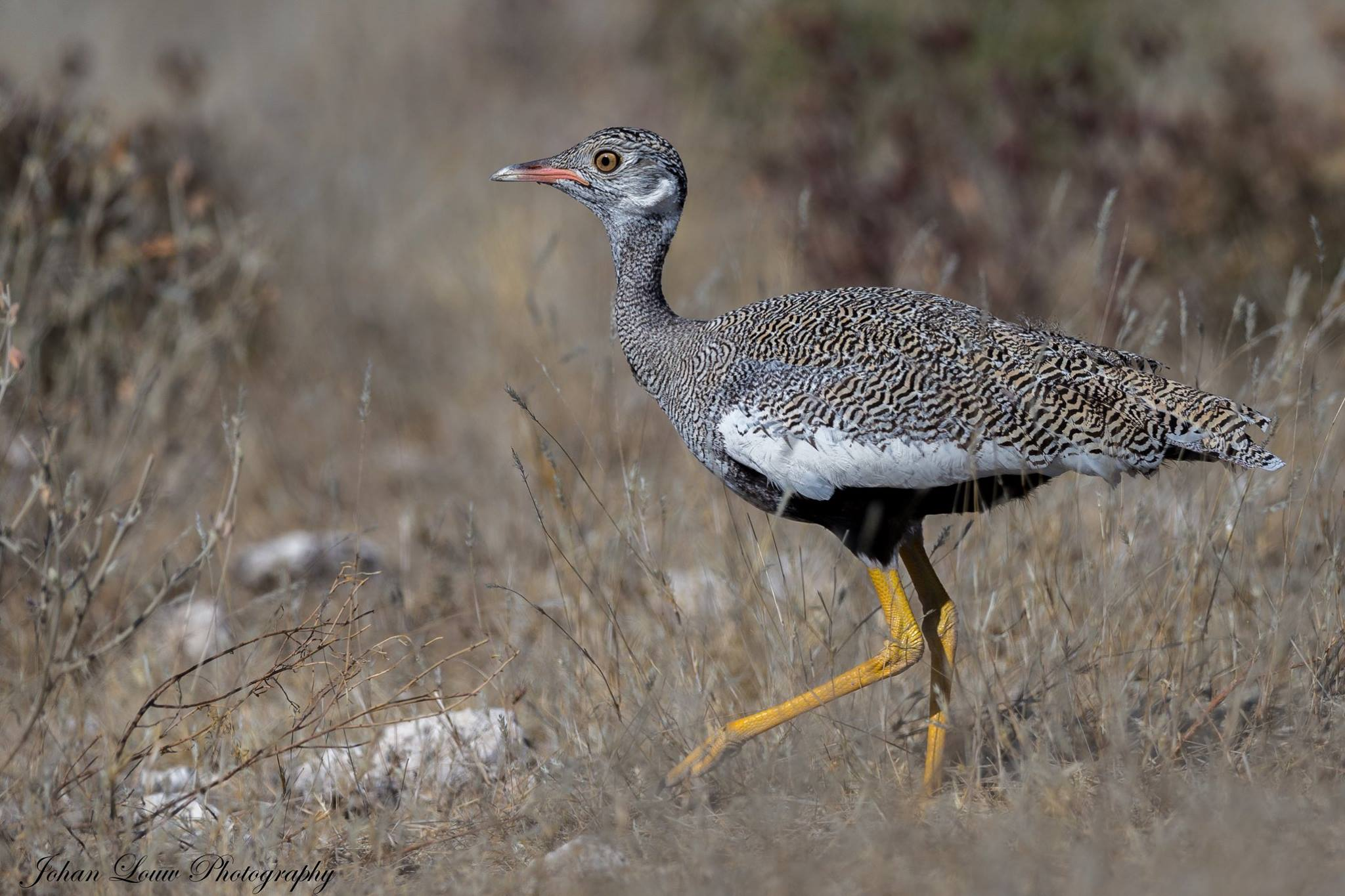 An immature male Northern black korhaan in Etosha National Park, Namibia. The barred head and neck plumage will be replaced by pied plumage at about 7 months.